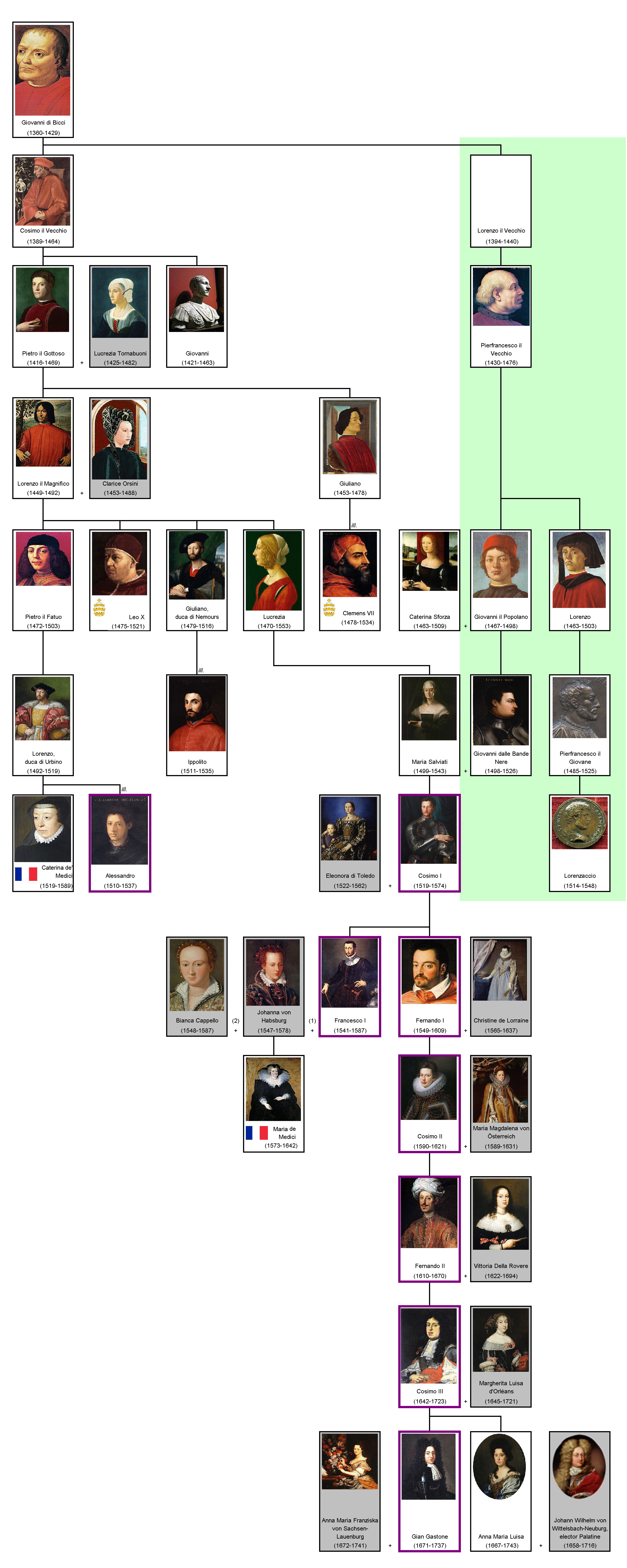 Family tree of Medici